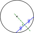 Property of circles: the bissector of a segment is a radius, it goes through the center of the circle.